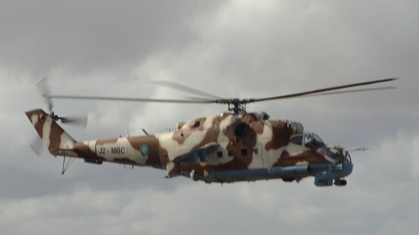 A Djiboutian Mil Mi-24 flying over.